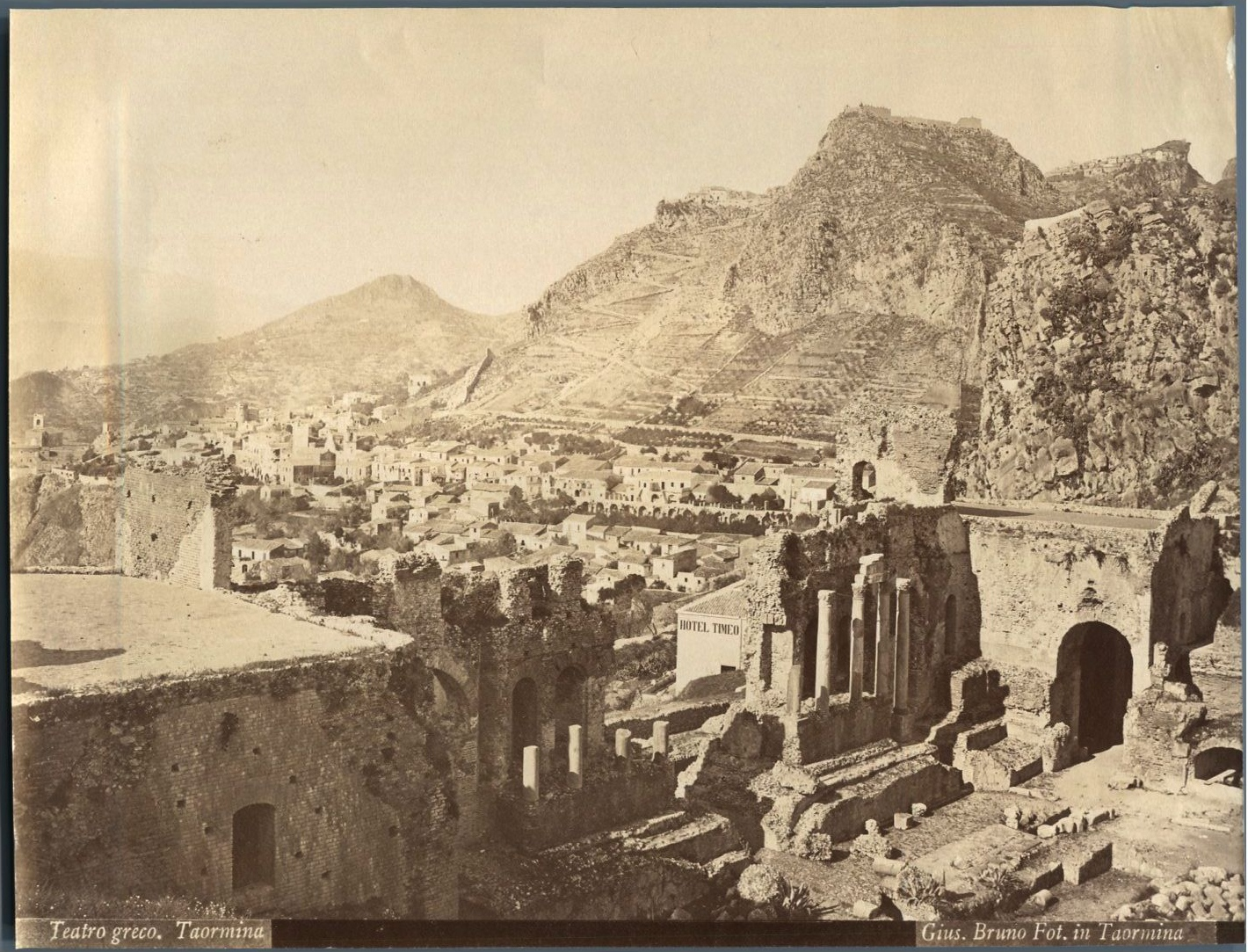 Giuseppe Bruno (1836-1904) "Greek Theatre. Taormina".